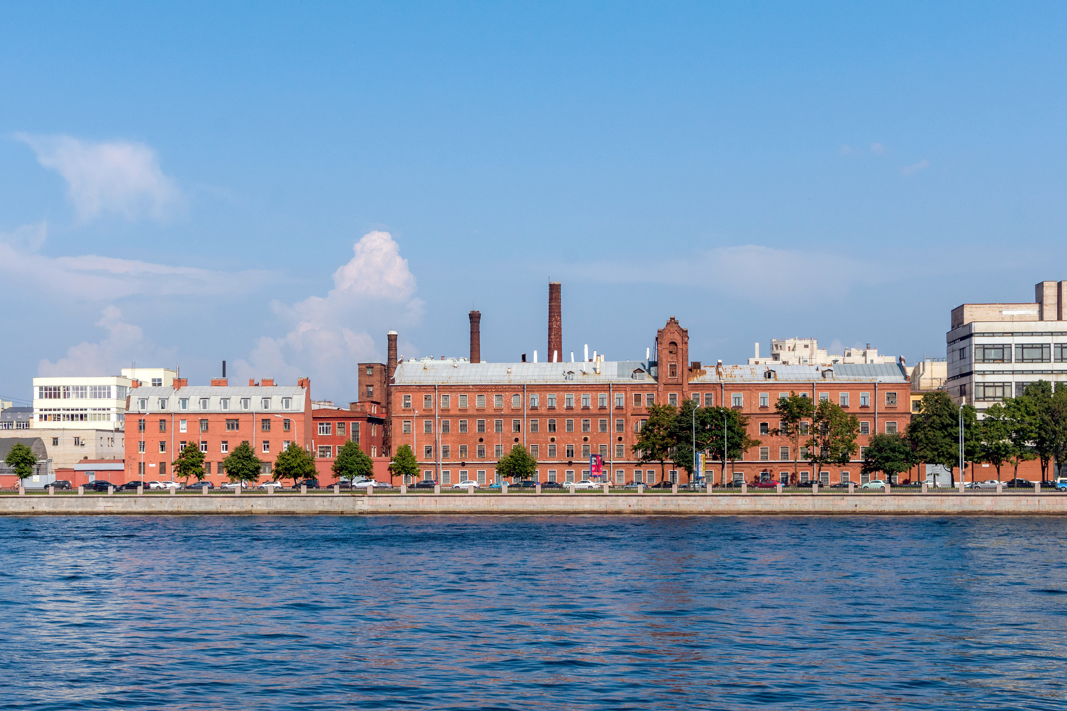 Gerhard's Cotton Manufactory at Vyborgskaya Embankment in Saint Petersburg